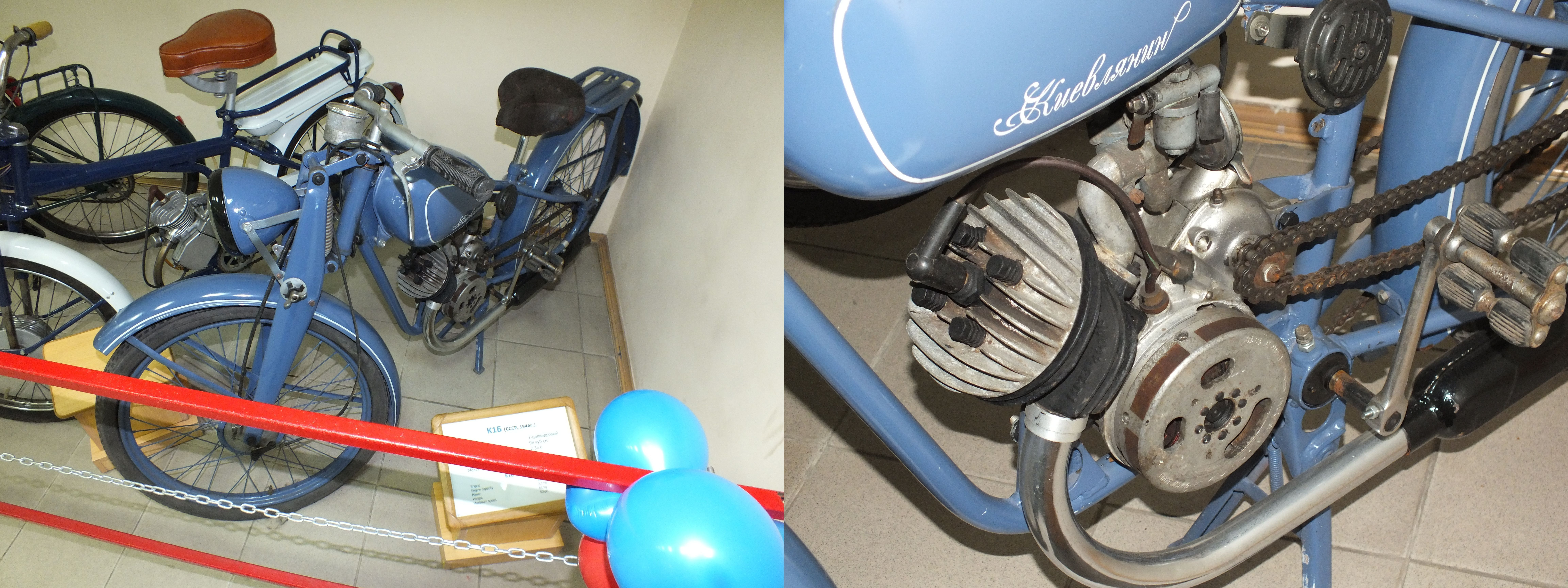 Motorcycles of Ukraine